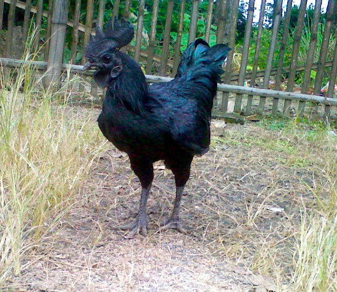 My own Picture